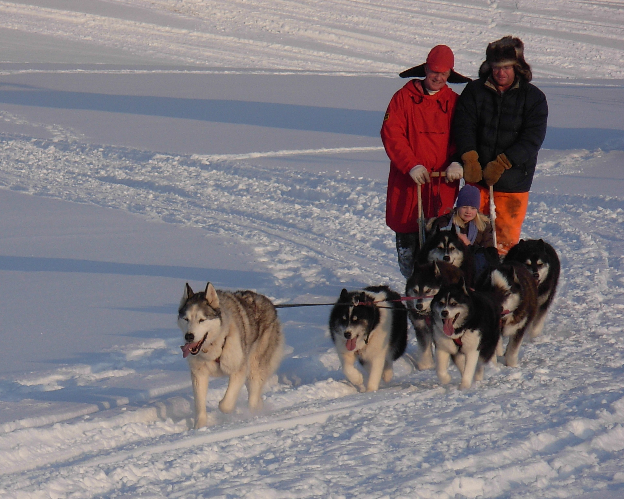 Dogsled team in Chatfield, Minnesota